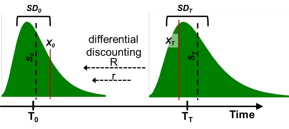 Graphics for re-edit and extension of Wikipedia page "Datar–Mathews method for real option valuation"